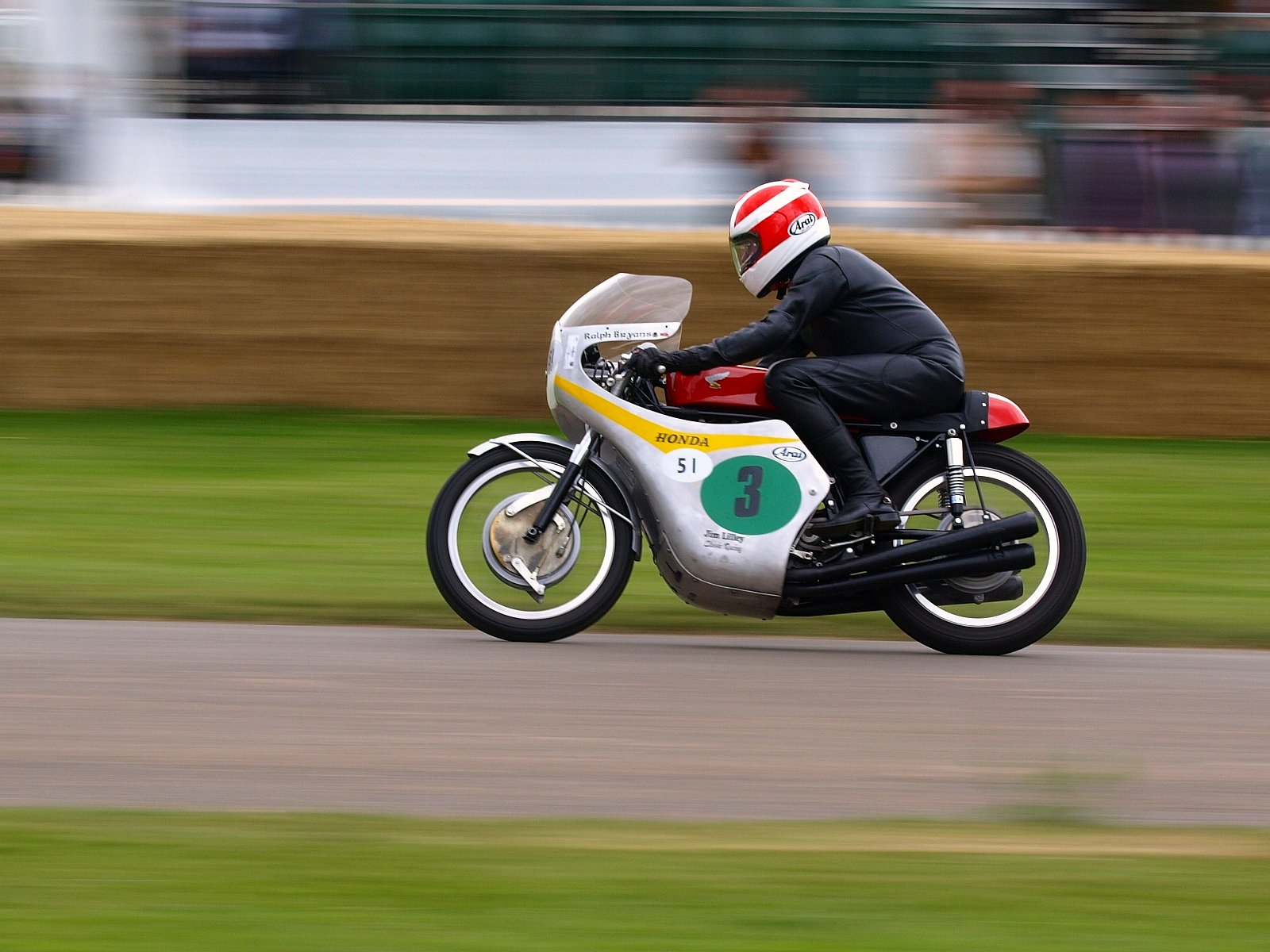 Ralph Bryans on the Honda RC171 at the Goodwood Festival of Speed in 2008